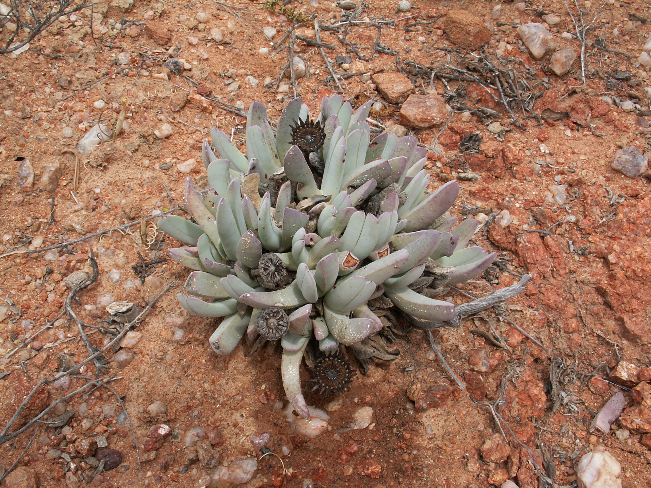 Cheiridopsis denticulata, Richtersveld National Park, Richtersveld Local Municipality, Namakwa District Municipality, Northern Cape, South Africa